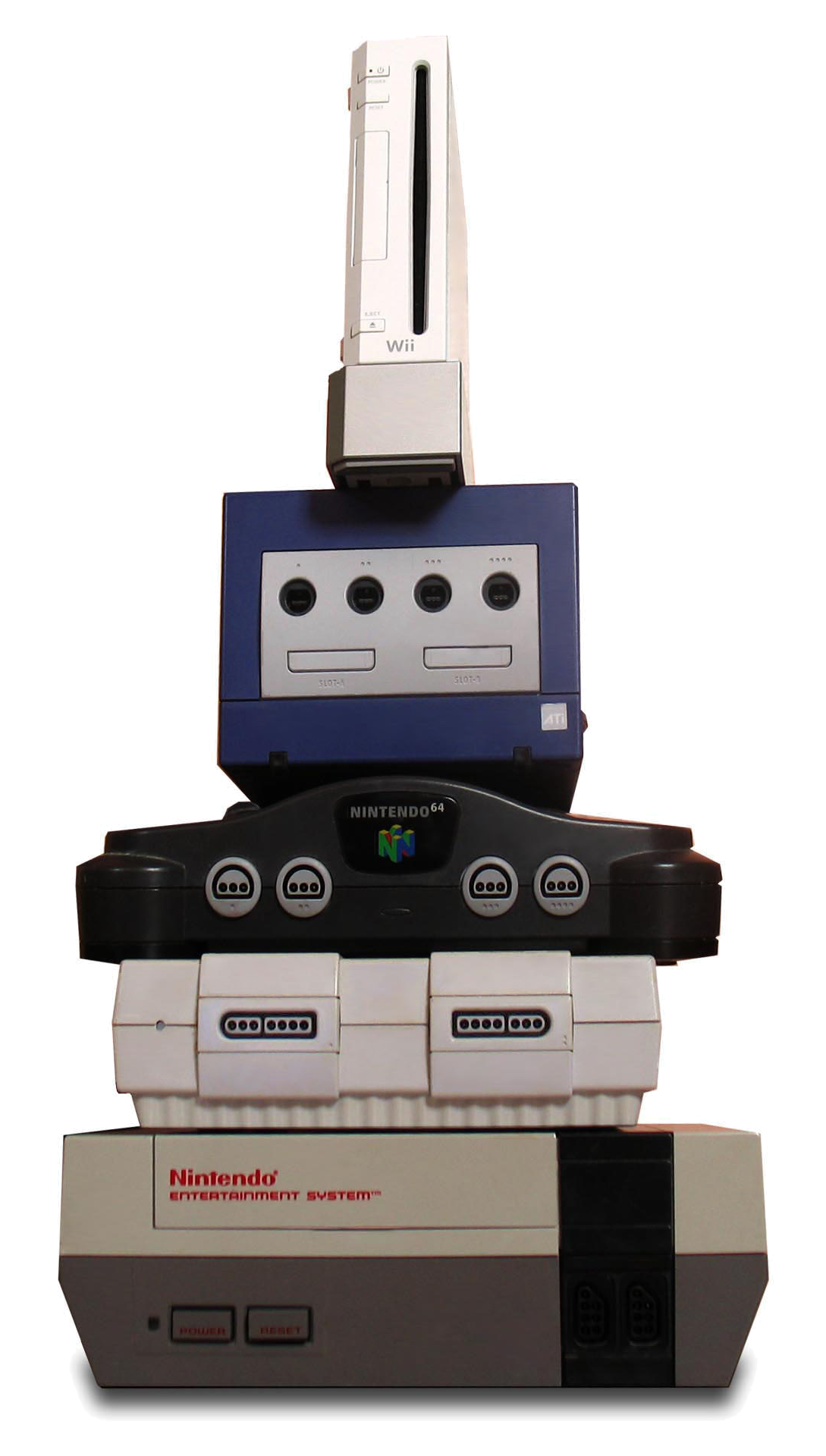 Nintendo Entertainment System, Super Nintendo Entertainment System, Nintendo 64, Nintendo GameCube and Wii. Edited in Adobe Photoshop CS for: color correction to compensate for color of surrounding wall, background transparency to focus attention on actual subjects, and a drop shadow for "a creative touch".The Wii's the smallest, with the NES to be the largest (N64 is almost the NES's size). I, Wuffyz, created this work. "I am Wii, king of video games!" Further editing was done due to visual imperfections.